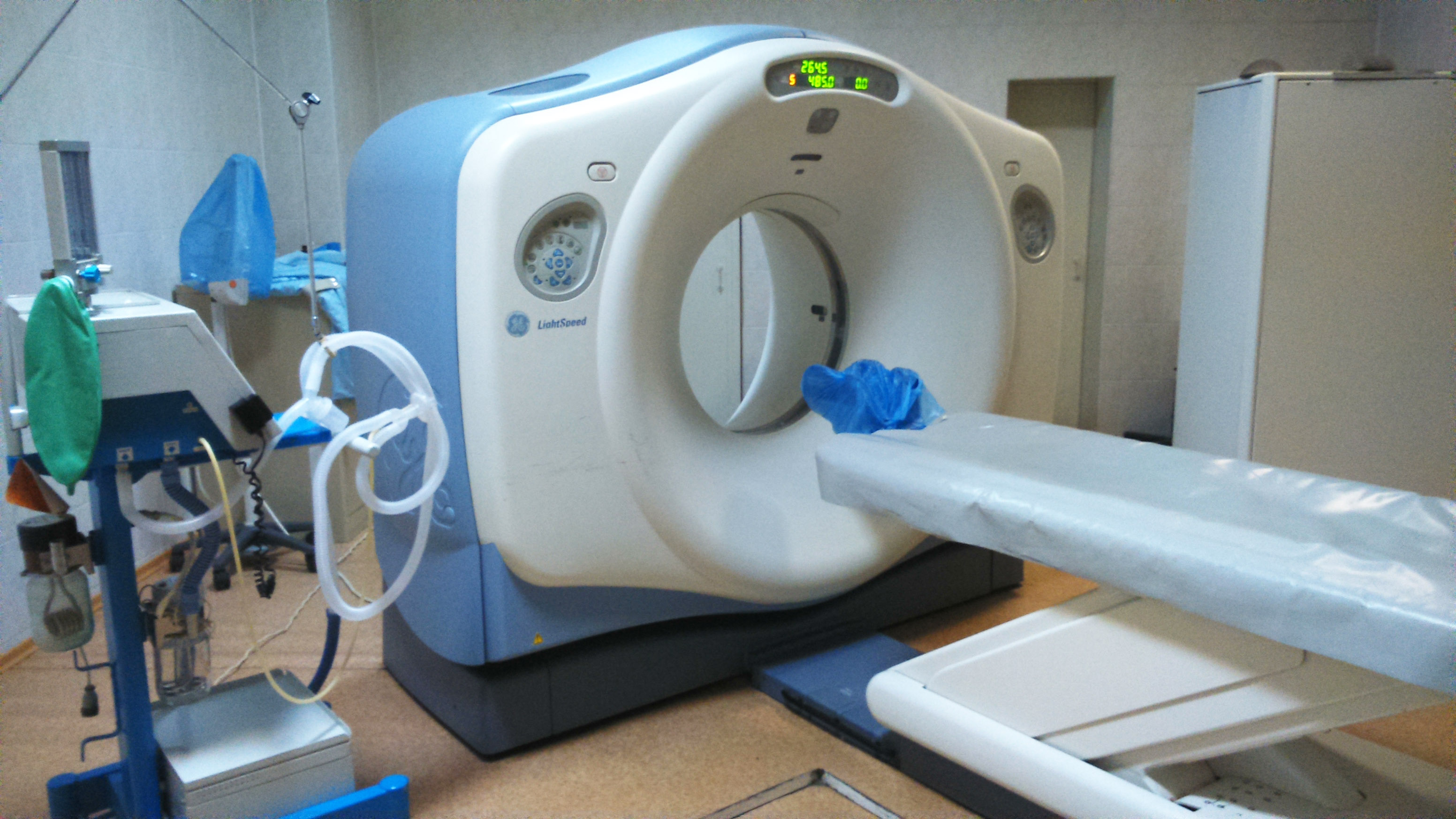 GE LightSpeed Spiral computed tomography in Kyiv Emergency Hospital